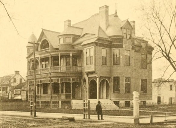 The Sottile House on the College of Charleston campus was photographed here in 1892.